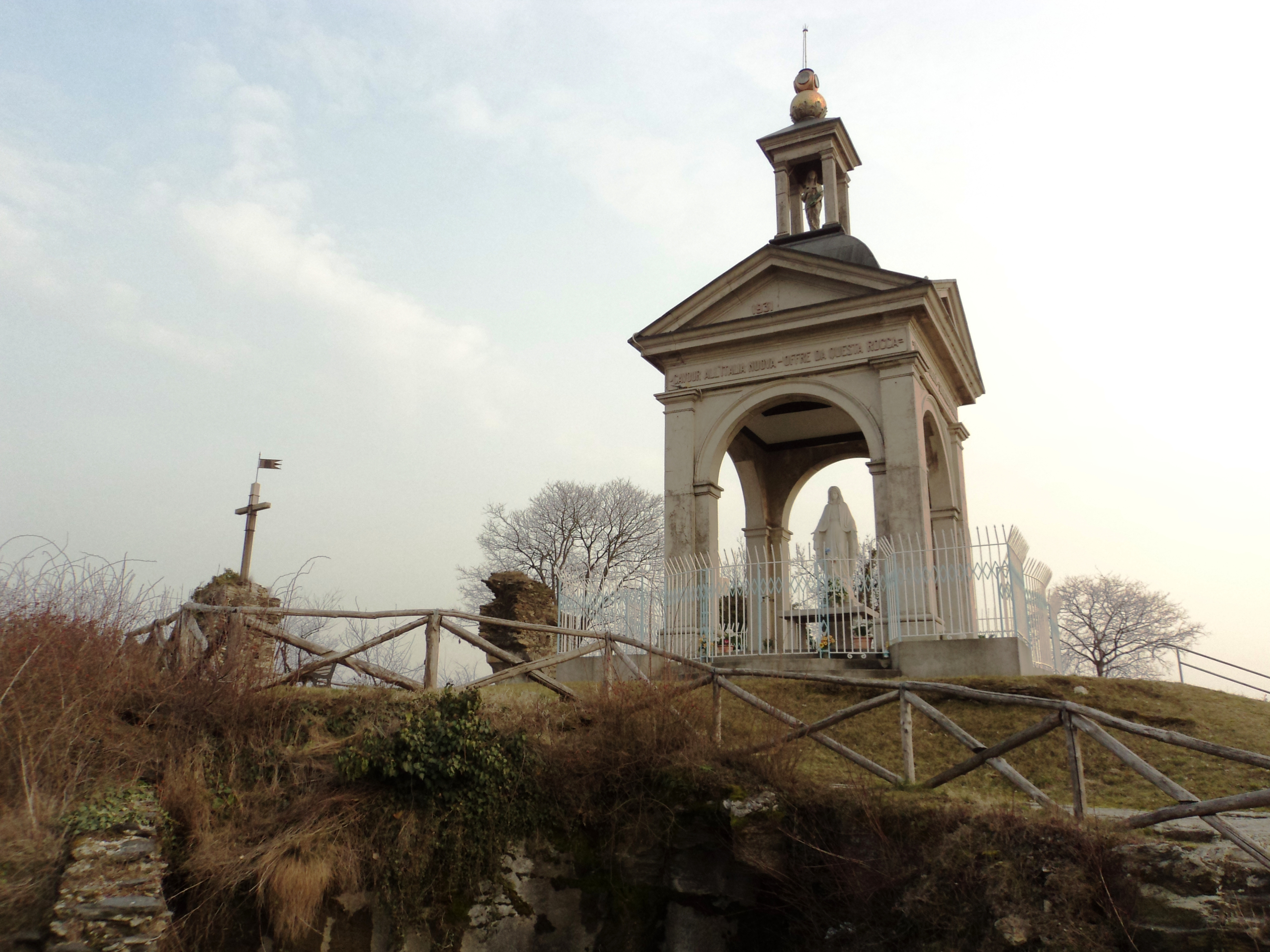 Top of Rocca of Cavour - Province of Turin - Piedmont - Italy